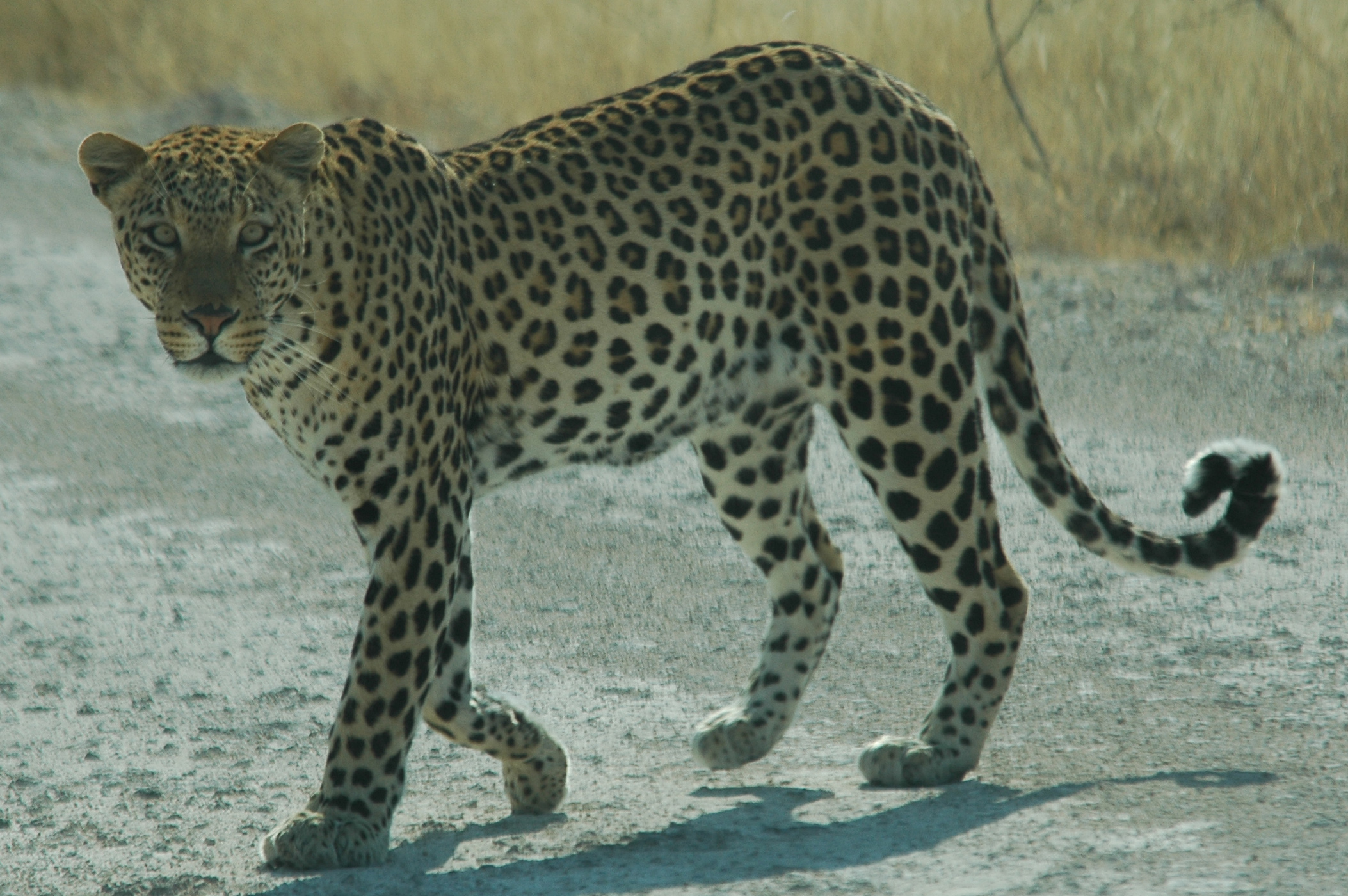 African Leopard in Etosha National Park, Namibia.